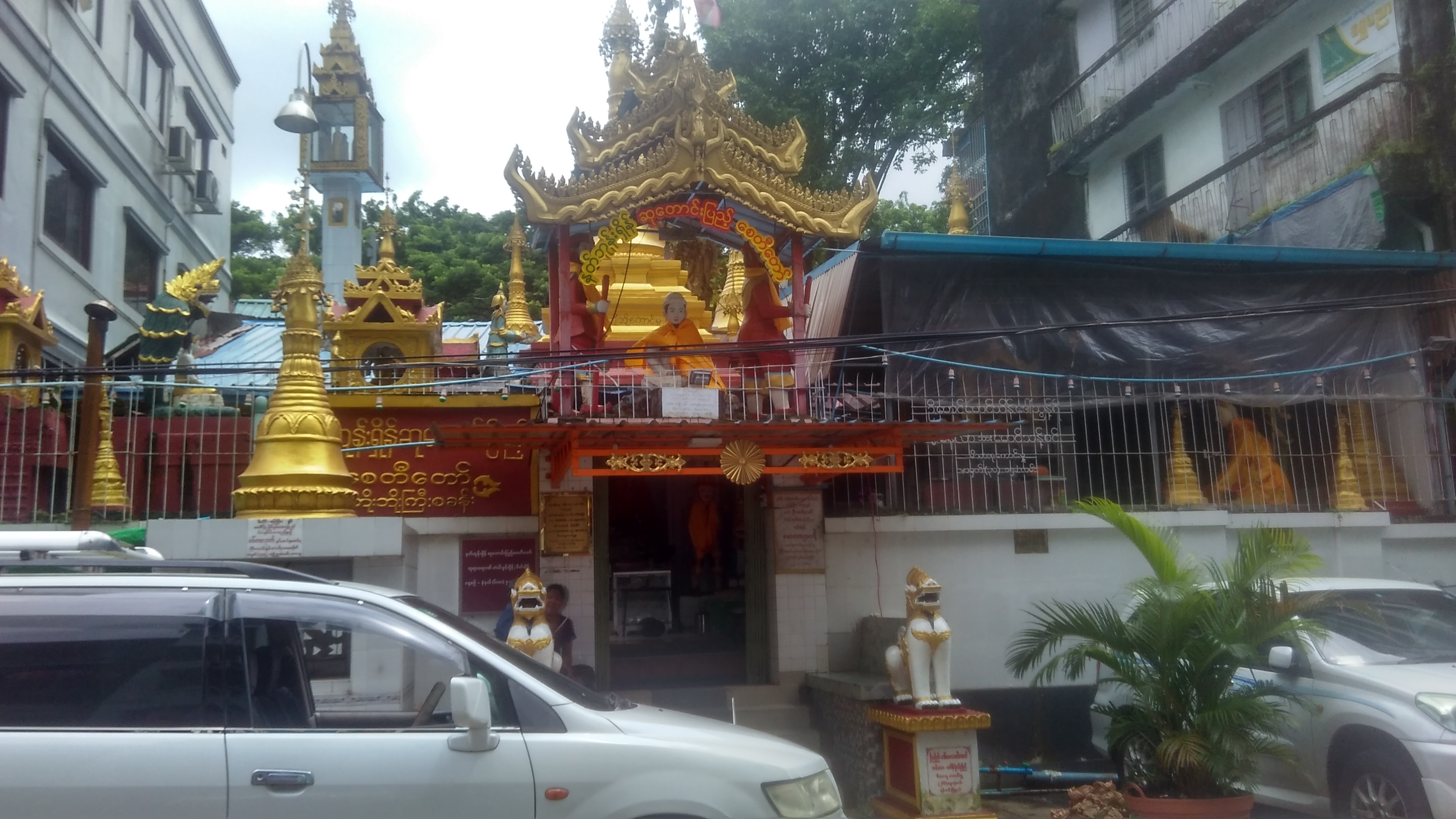 Nat Bone Shein Buddha Stupa မြန်မာဘာသာ: နတ်ဘုန်းရှိန်ဆုတောင်းပြည့်စေတီတော်၊ ဗျိုင်းရေအိုးစင်လမ်း၊ တာမွေမြို့နယ်၊ ရန်ကုန်။